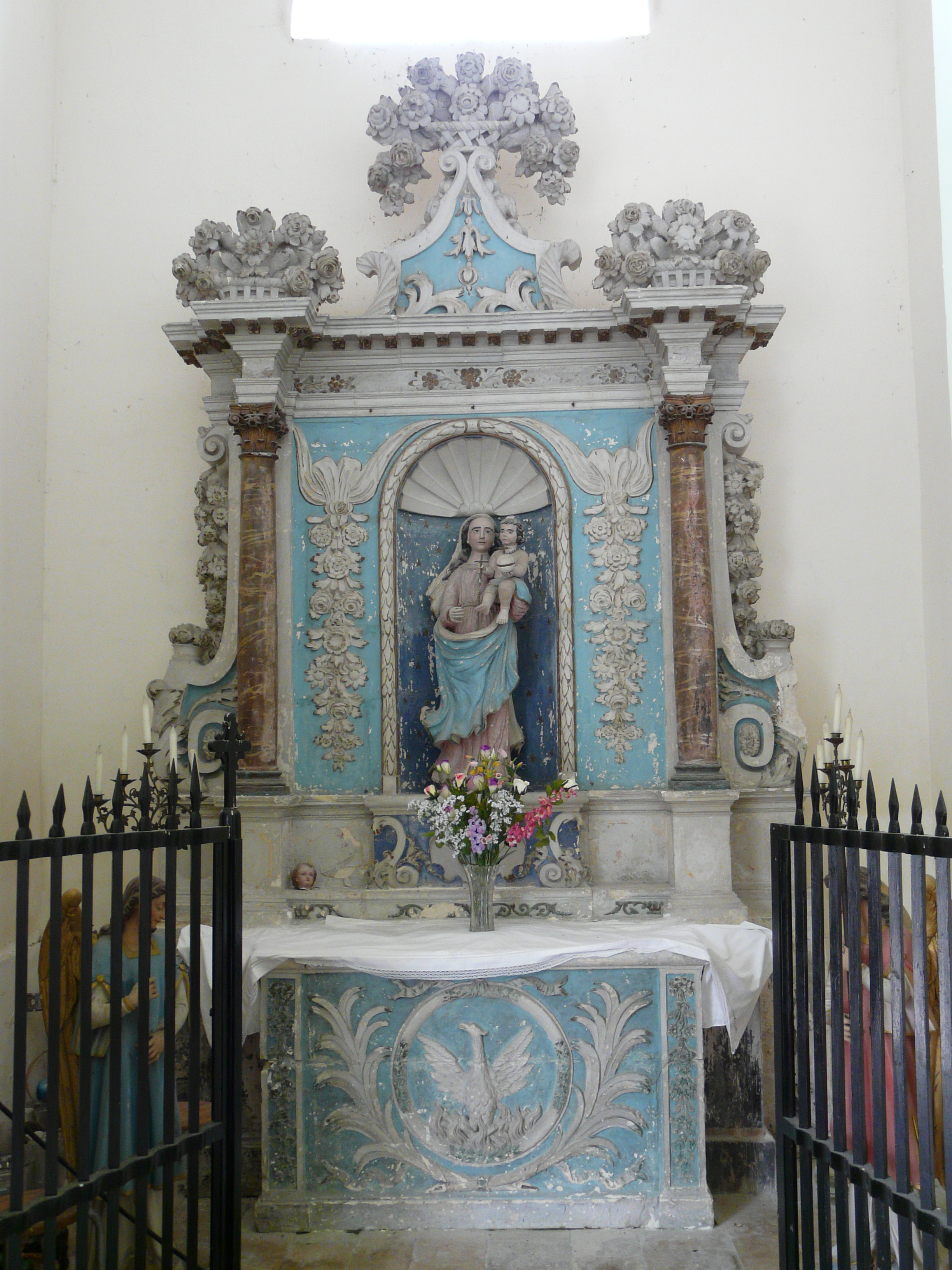 Retable in the church of Naives-en-Blois (Meuse, France) originally in the former abbey of Rieval